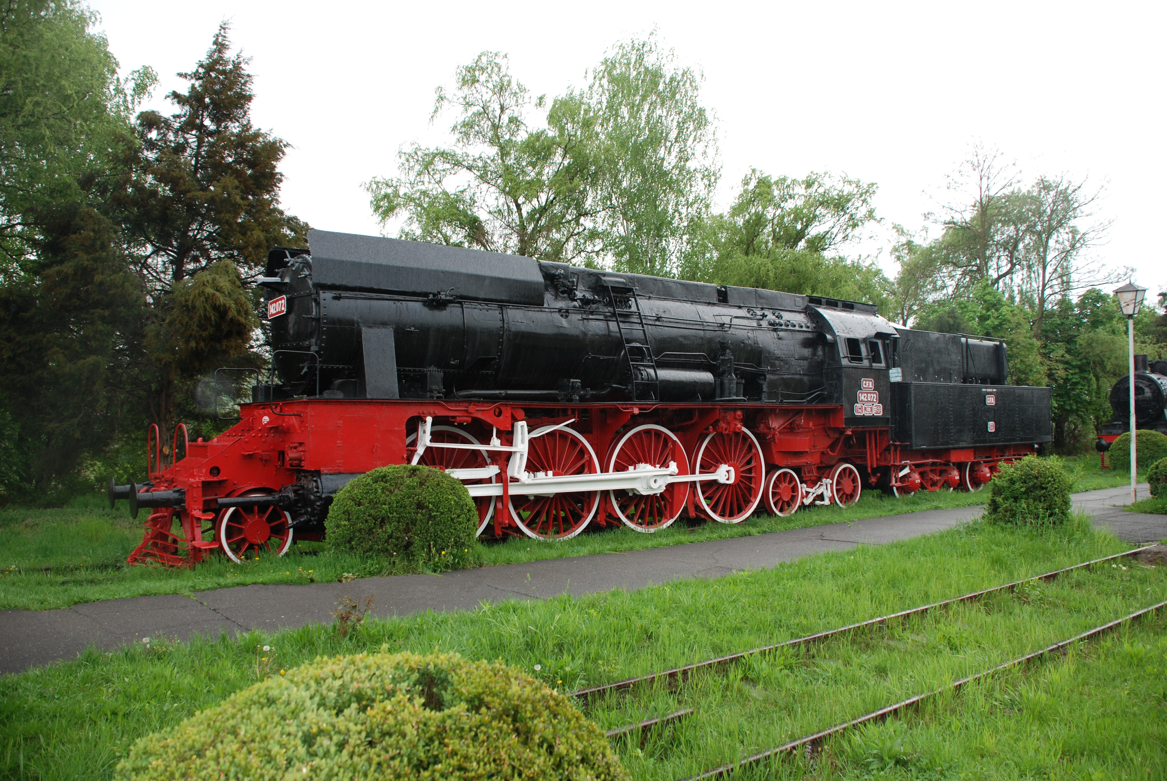 CFR 142.072 romanian steam locomotive in Resita museum